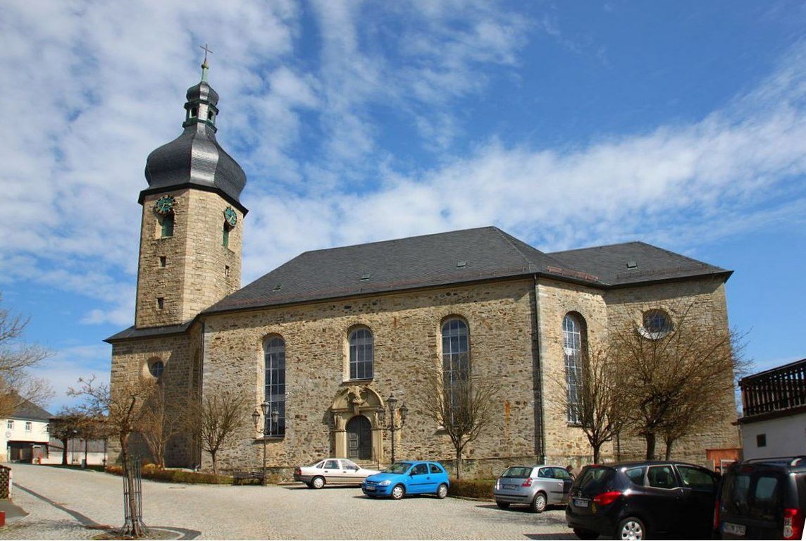 Christ church in Schwarzenbach am Wald